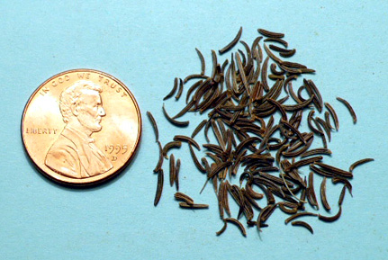 Black cumin (Bunium persicum or Bunium bulbocastanum) seeds, with a U.S. penny (one-cent coin) at left, for comparison. Photo taken in Kent, Ohio with a Panasonic Lumix digital camera (model DMC-LS75). Basil seeds purchased in a northeast Ohio-area Indian grocery store. These seeds are called kala jeera in India.